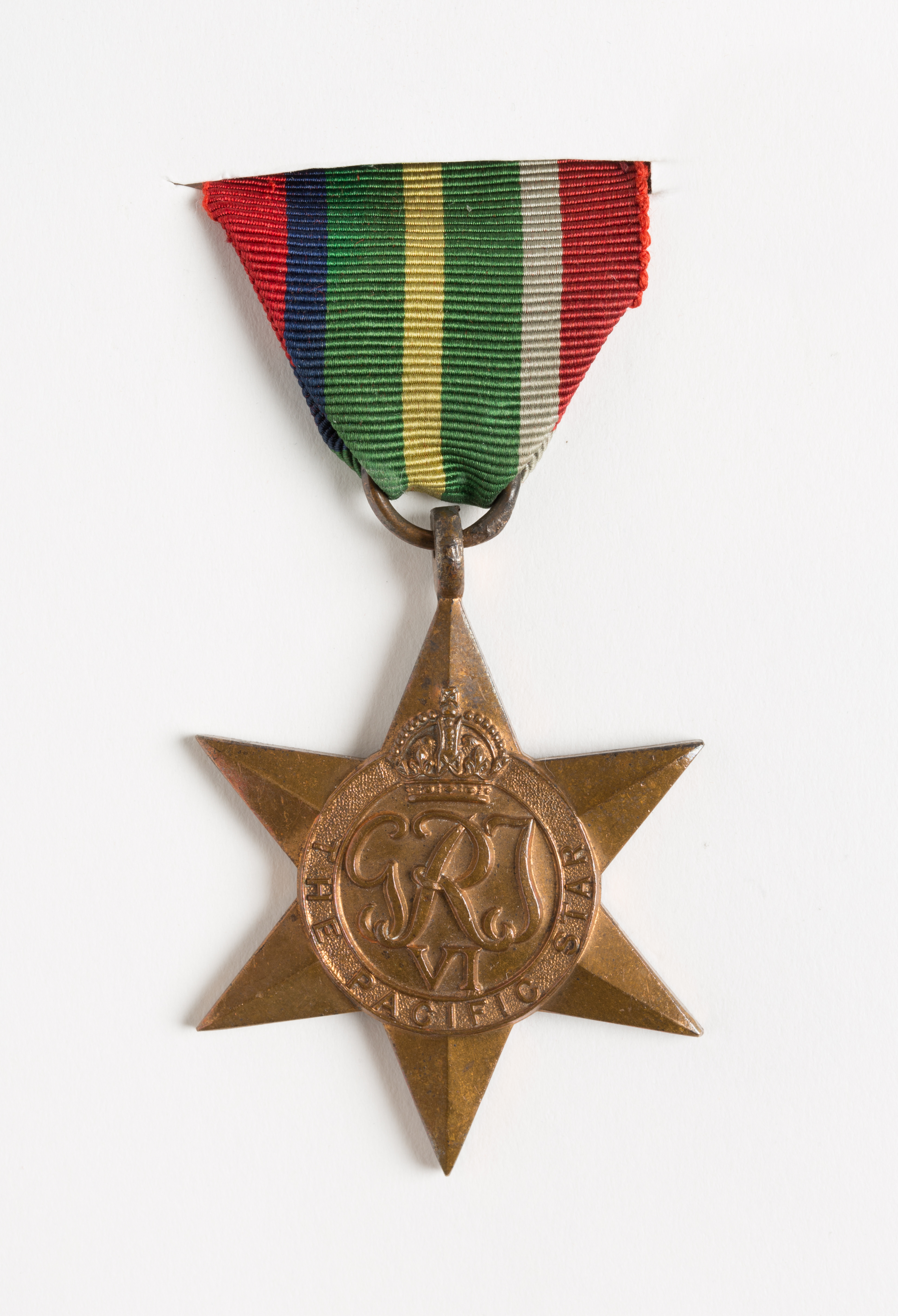 The Pacific Star, WW2 Awarded to Lt. Col. Francis William Voelcker bronze six pointed star 43mm diameter, ring suspender, with ribbon Obverse- In the centre the Royal cypher ‘GRI’ with ‘VI’ below. The cypher is surmounted by a crown on a circlet which bears the title of the star ‘THE PACIFIC STAR’ reverse- plain Ribbon- 32mm wide grosgrain ribbon, coloured bands of army red, navy blue, dark green, yellow, dark green, air force blue, army red.